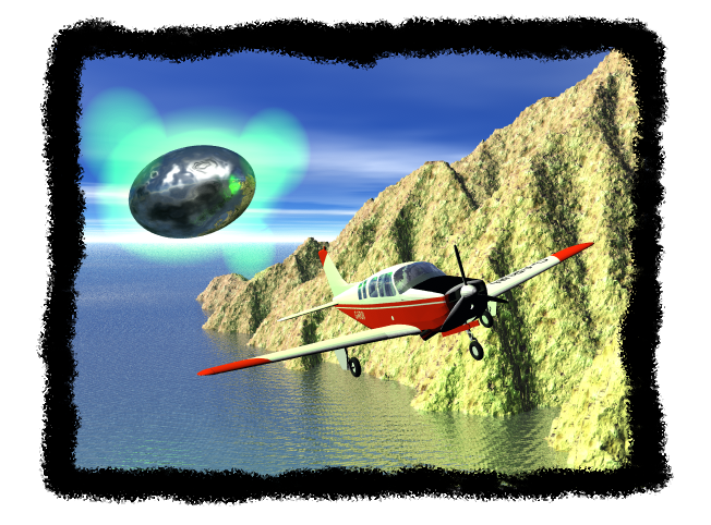 The Valentich disappearance, disappearance case linked to the phenomenon UFO. This case took place October 21, 1978, along the Australian coast.